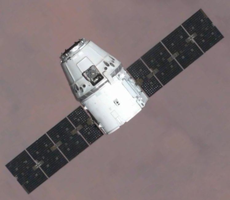 Screenshot from HD video of the COTS 2 mission.